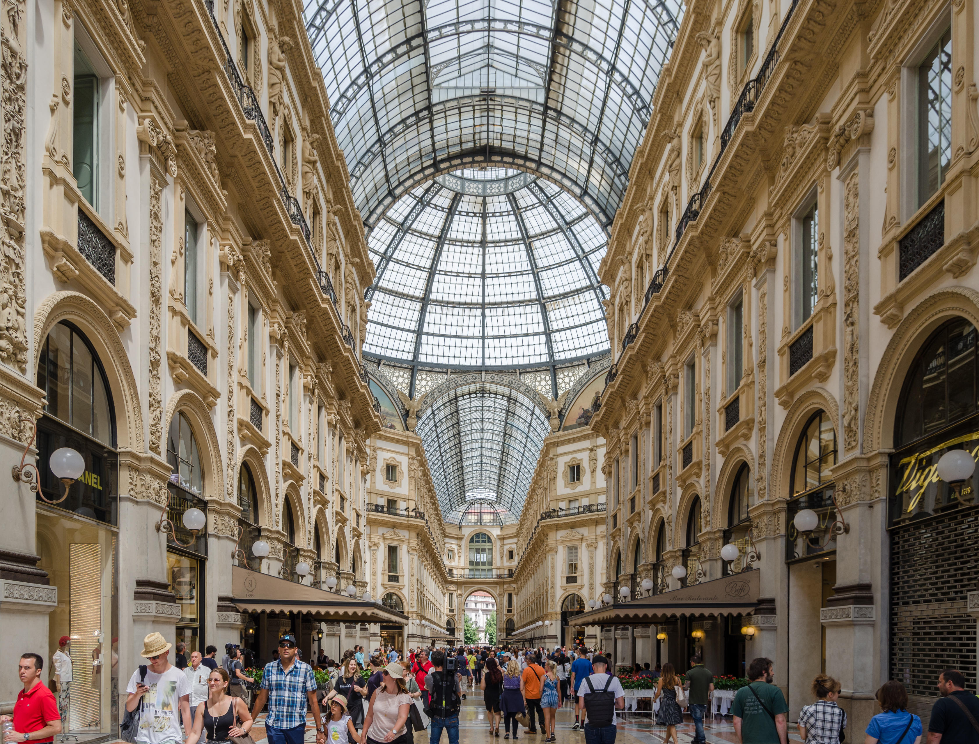 Milan (Lombardy, Italy) – historic shopping mall Galleria Vittorio Emanuele II – view through the vertical aisle to the north